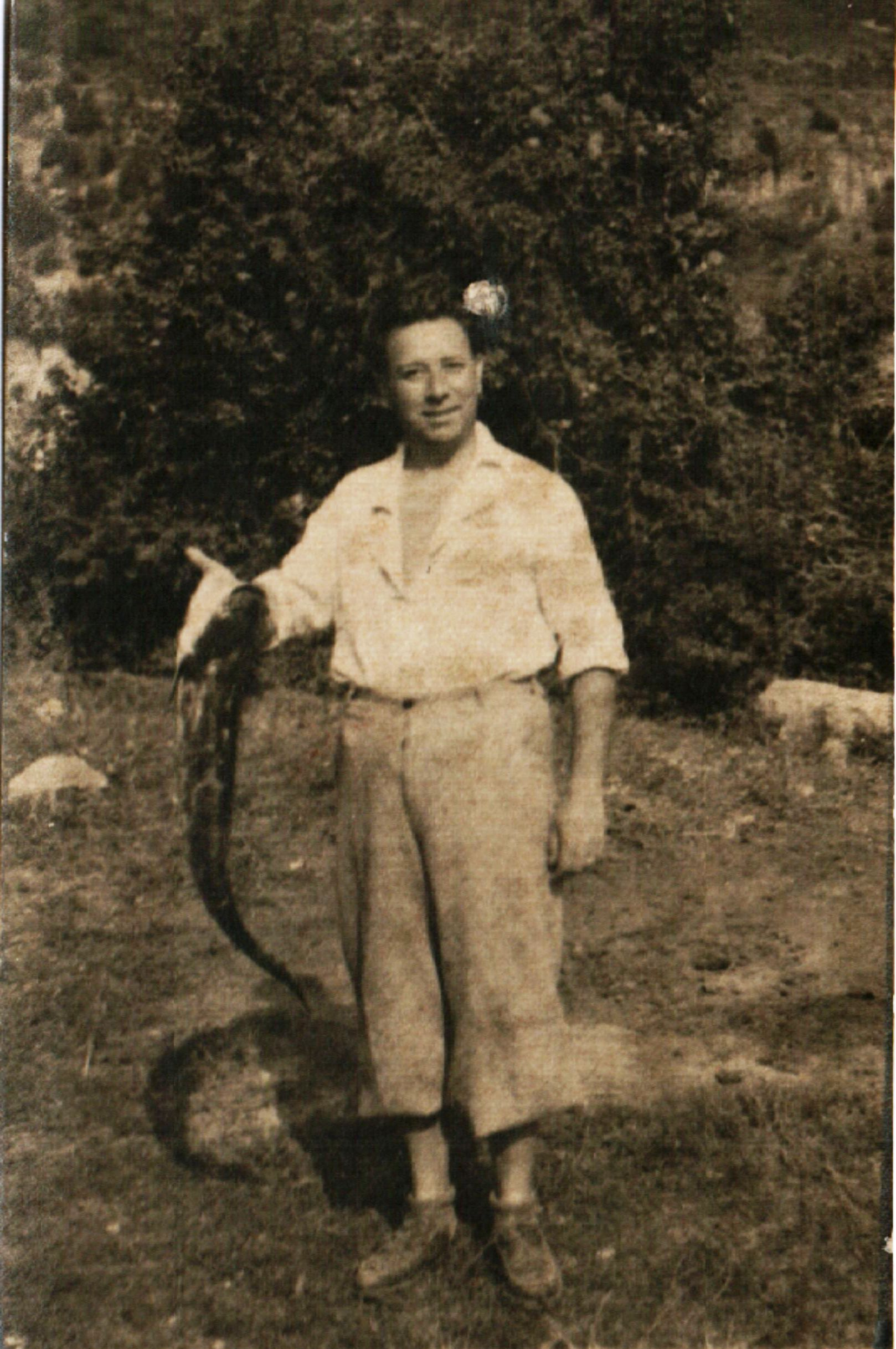 Bulgarian opera singer Georgi Belev for fishing.